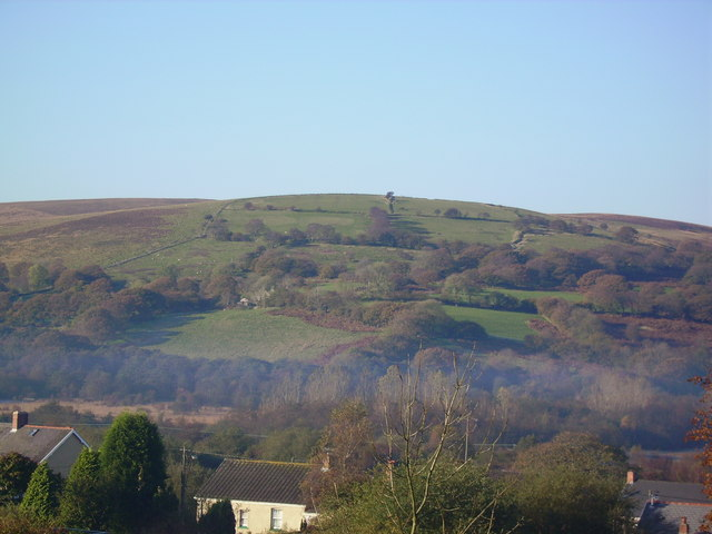 Gelli Fawr farm, Cwmgors This is Gelli Fawr farm in Cwmgors taken from the old Cwmgors brick works. As children we used to call it the old farm and thought it was haunted because of its ruined state.